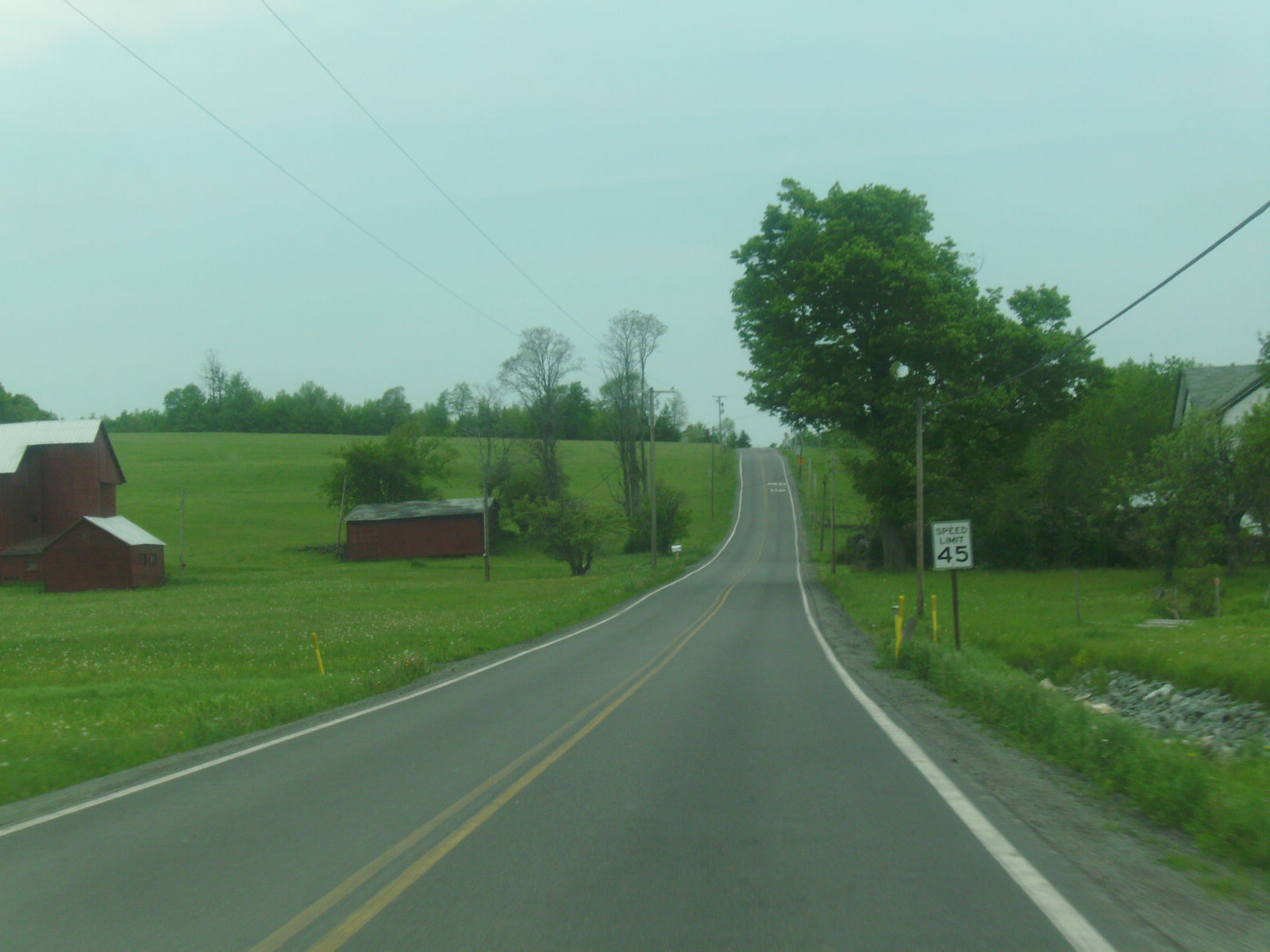 Pennsylvania Route 296 heading northward towards its northern terminus of Pennsylvania Route 247 in Clinton Township.